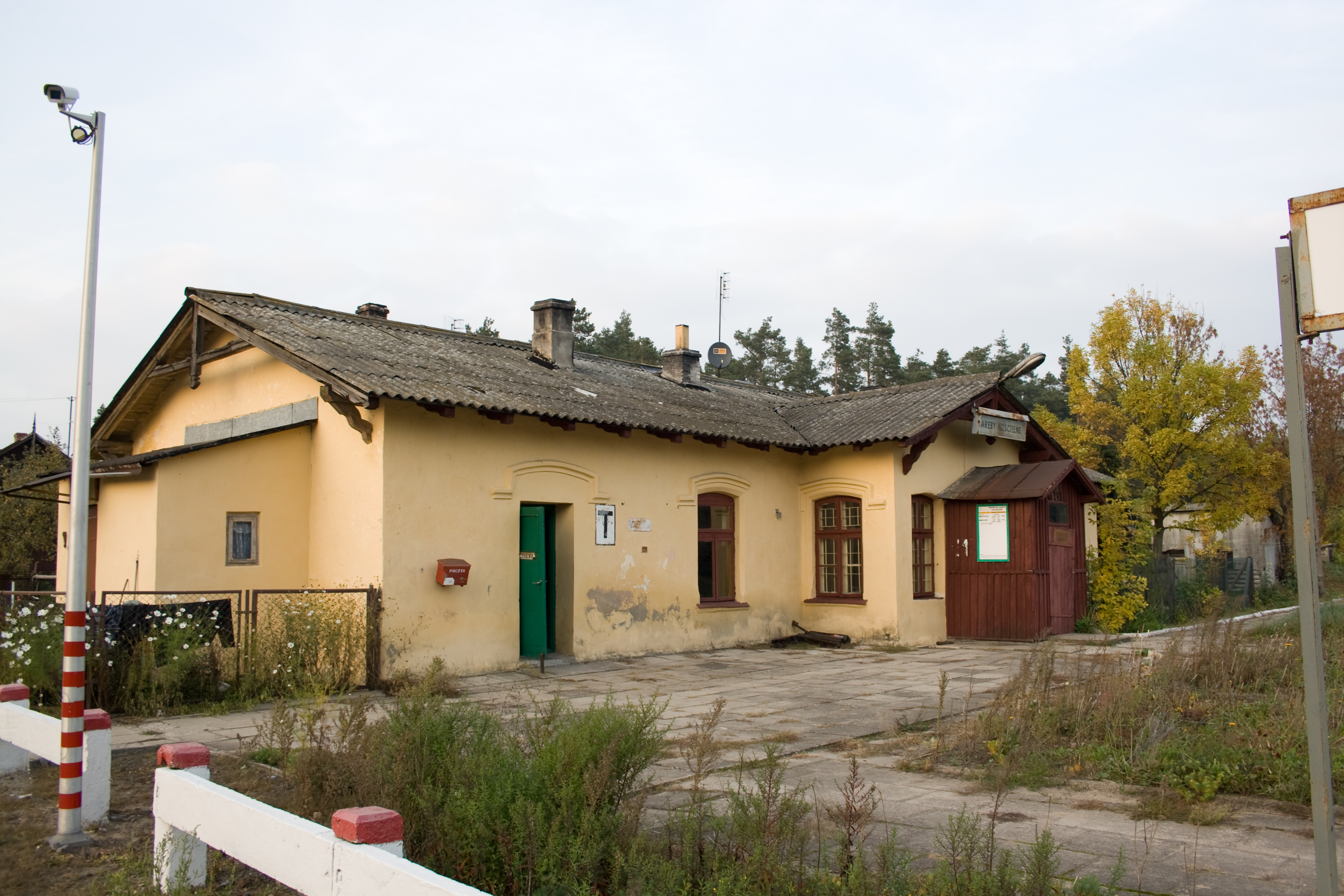 Zaręby Kościelne station, near Małkinia, Poland